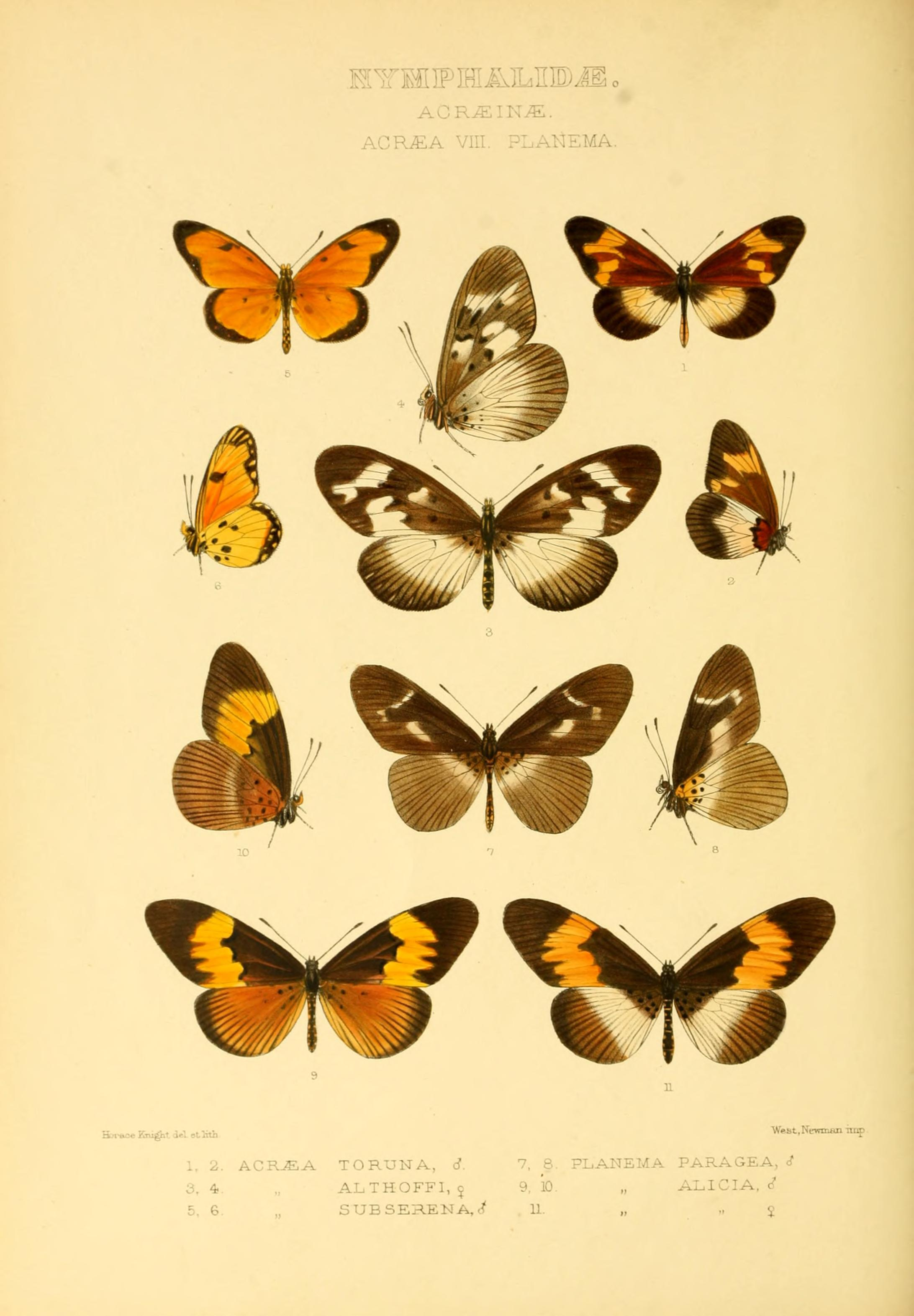 Grose-Smith, H. & Kirby, W.F. (1887-1892): Rhopalocera exotica, being illustrations of new, rare and unfigured species of butterflies London 1:x, [1-183]. Plate 8 Acraea toruna Grose-Smith, 1900 Acraea althoffi Dewitz, 1889 Acraea subserena synonym for Acraea serena (Fabricius, 1775) Planema paragea synonym for Bematistes epaea (Cramer, 1779) but possibly a good species Planema alicia synonym for Acraea aurivillii Staudinger, 1896